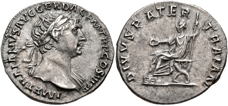 Trajan. AD 98-117. AR Denarius (19mm, 3.31 g, 7h). Rome mint. Struck circa AD 112-115. Laureate bust right, with drapery on far shoulder Divus Pater Traiani (Trajan’s deified father–Marcus Ulpius Traianus) seated left on curule chair, holding patera and scepter. RIC II 252; RSC 140.